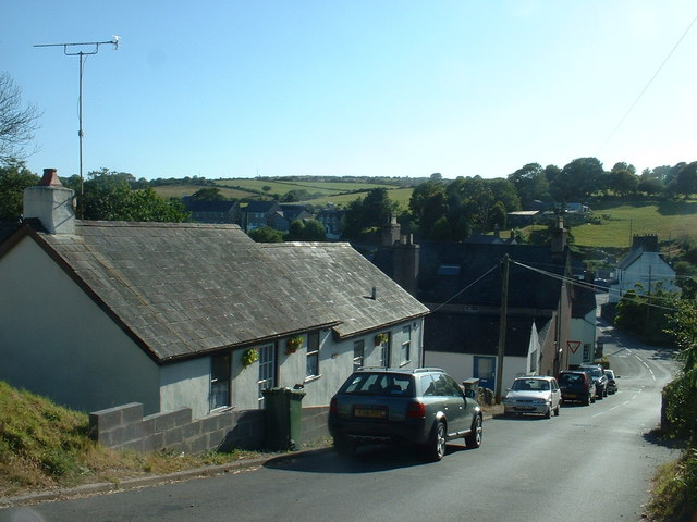 Sarn Meyllteyrn. Looking south west.